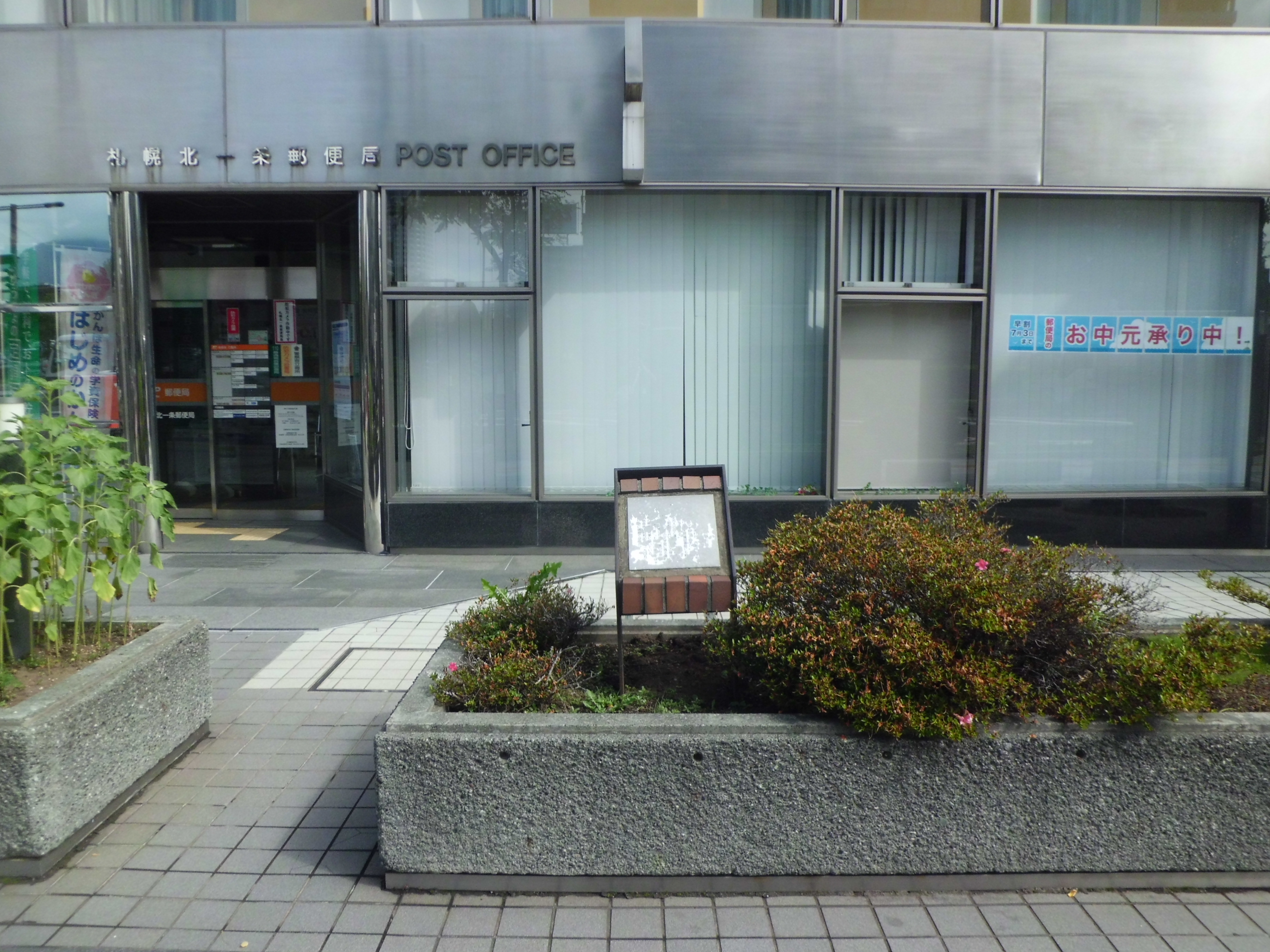 Birthplace of Kensaku Shimaki